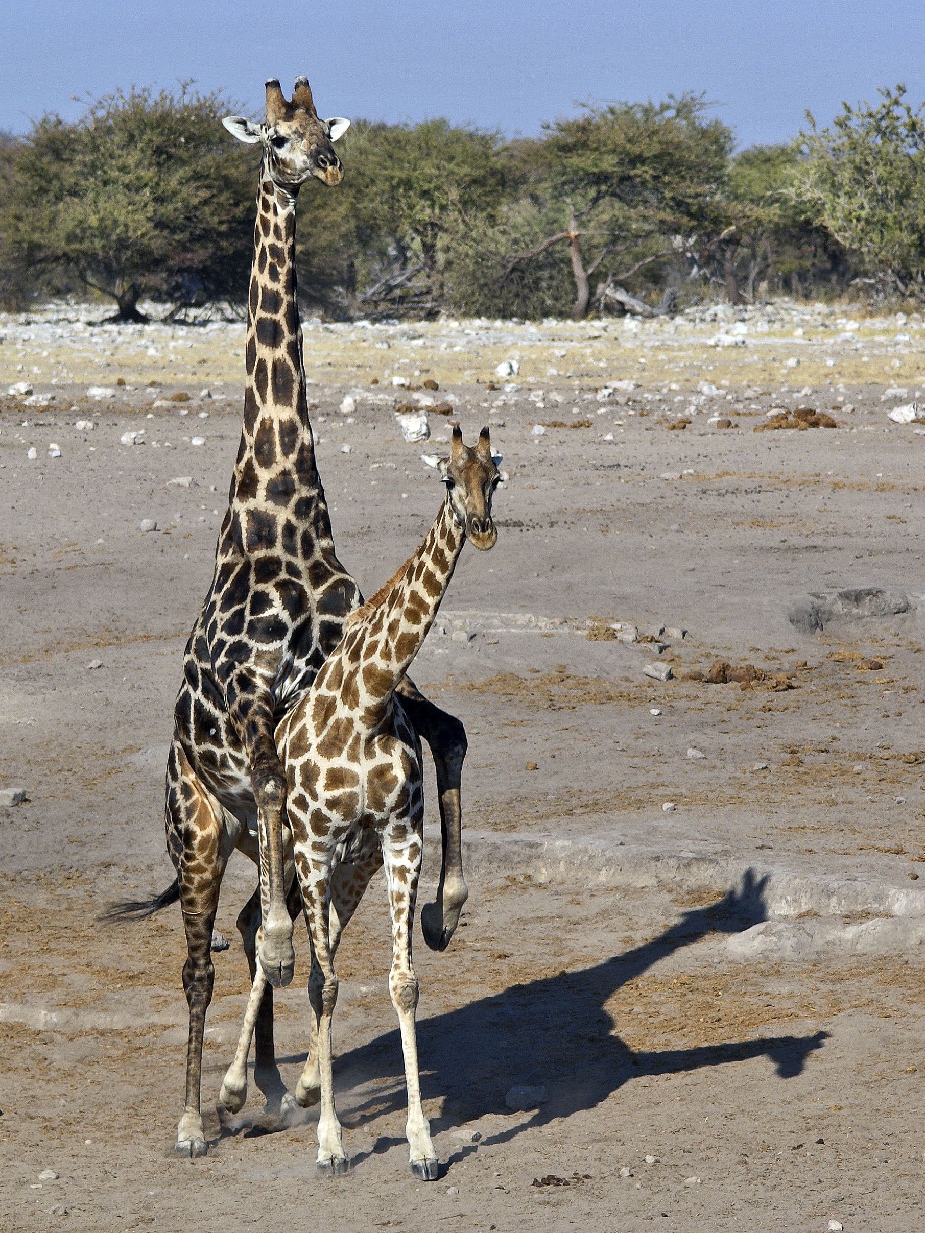 Mating Southern savannah giraffes at Chudop waterhole, Etosha, Namibia